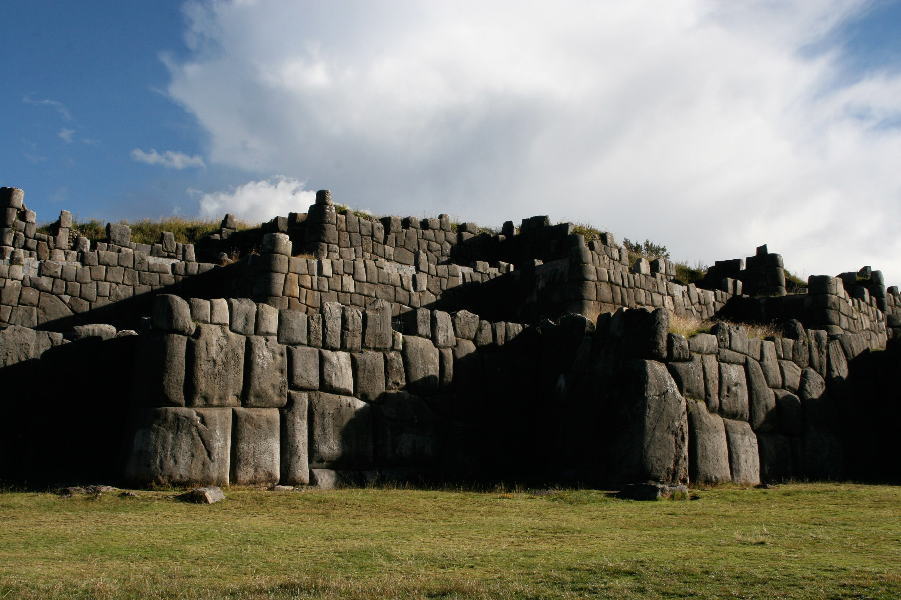 The walls of the Incan religious complex Sacsayhuamán, situated to the north of Cusco, Peru.